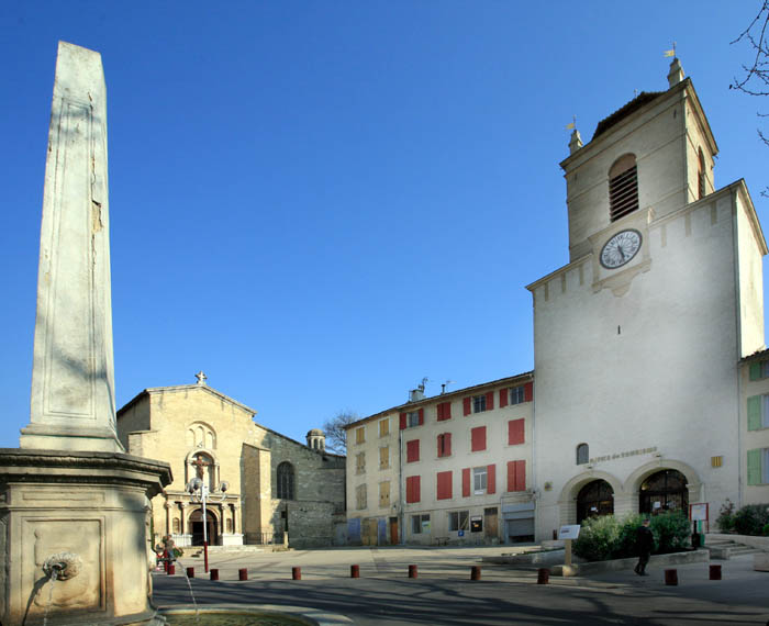 Town of Pertuis in Vaucluse, France Eglise et office de tourisme.